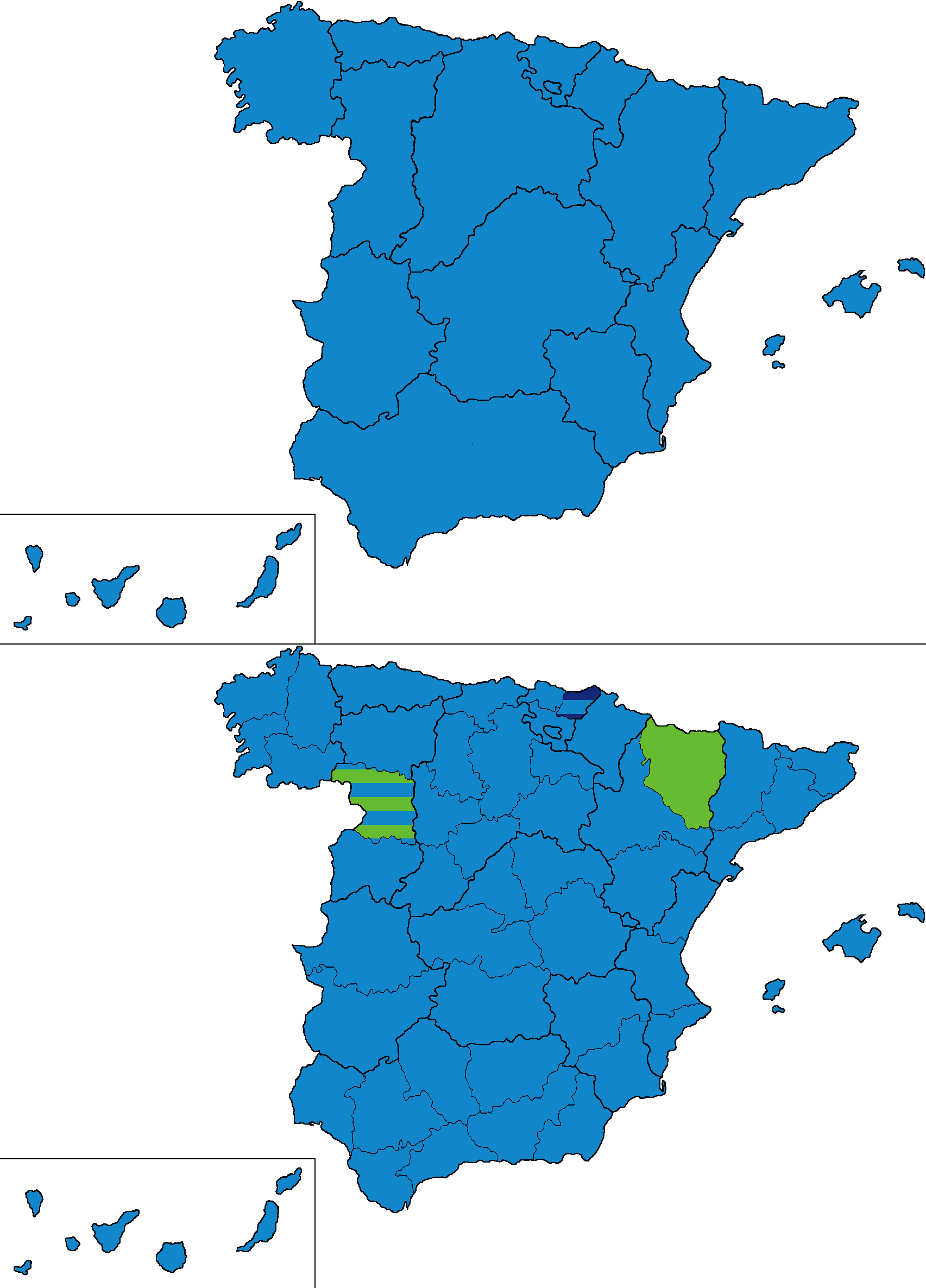 Most voted party in the 1879 Spanish Congress of Deputies election by regions and provinces.